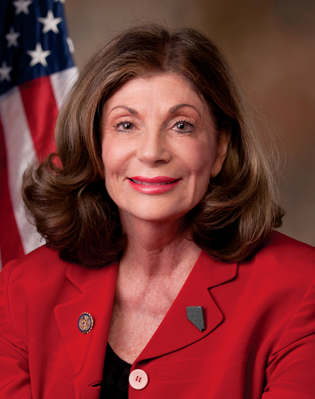 Official portrait of Congresswoman Shelley Berkley (D-NV).